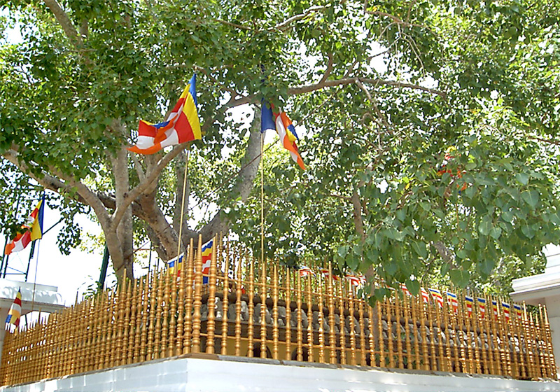 Jaya Sri Maha Bodhi in Anuradhapura, Sri Lanka